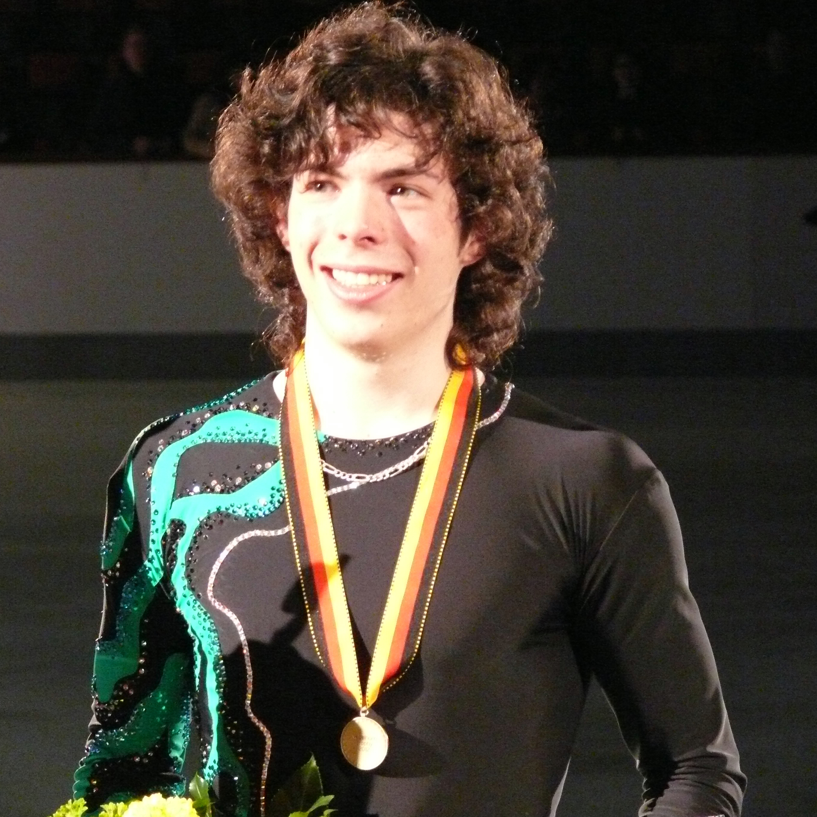 Keegan Messing (USA) at the victory ceremony at the Nebelhorn Trophy 2012 in Oberstdorf/Germany